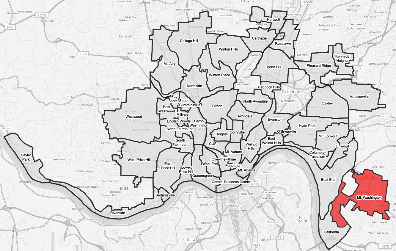 A map of the neighborhood of Mount Washington within Cincinnati, Ohio. Neighborhood lines are based on information from This street map is derived from a free map.